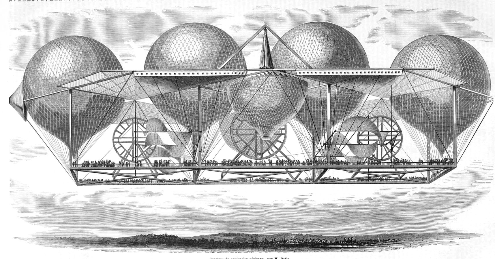 Jusque La Petin airship and platform